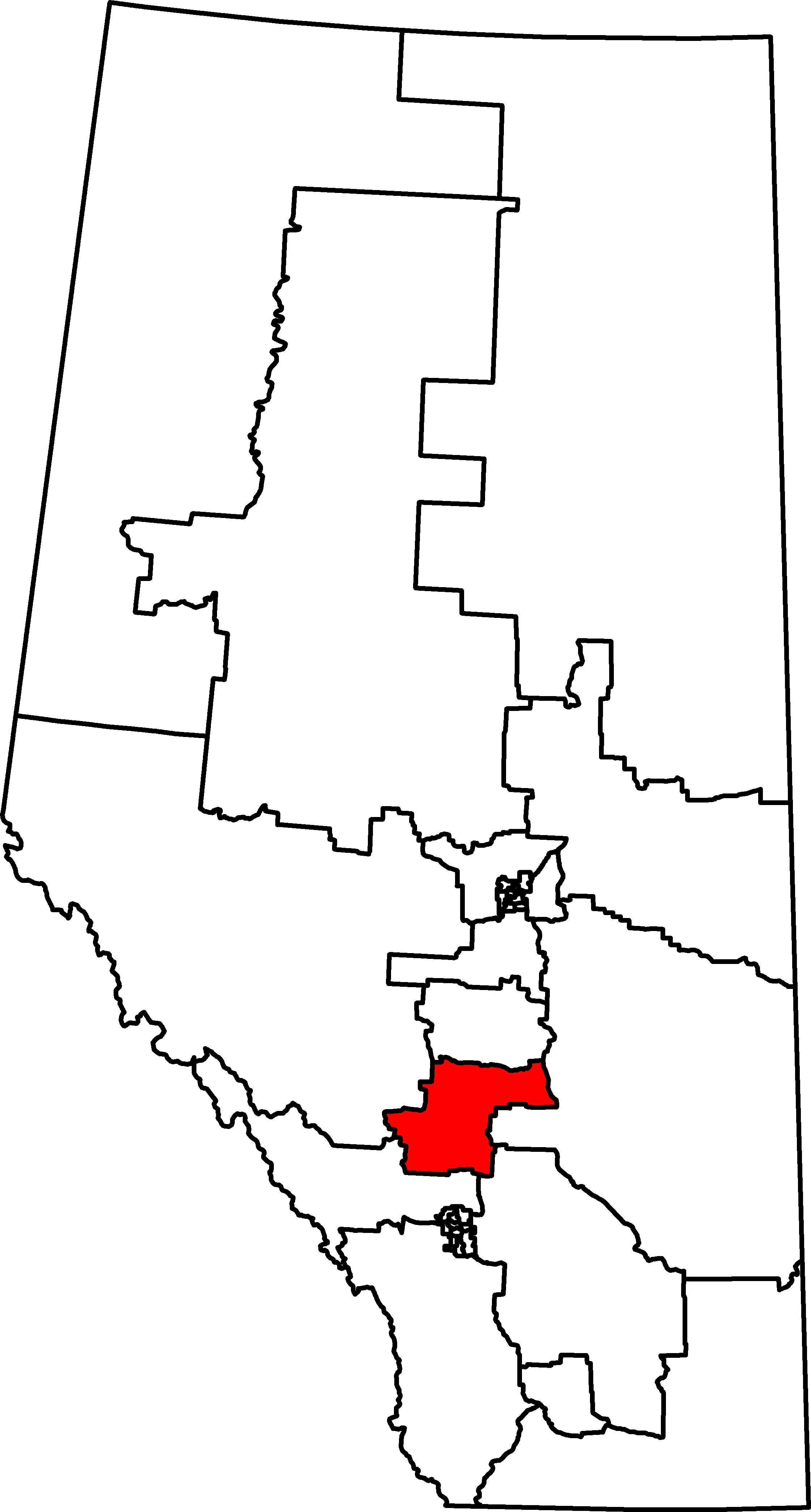 Federal Electoral District in Alberta, Canada as of the 2013 Representation Order.